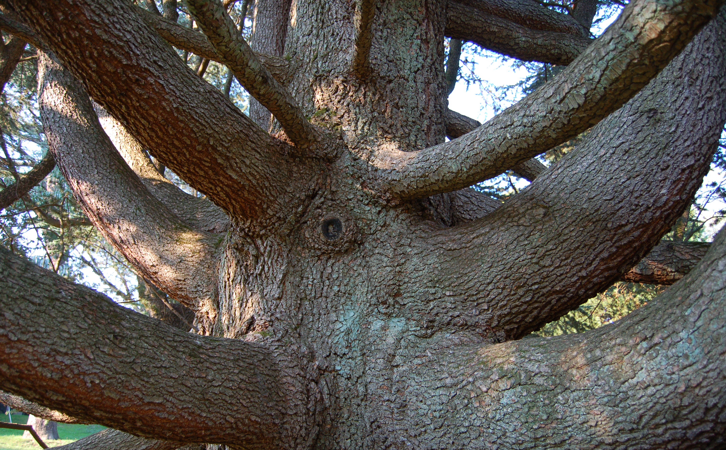 Photograph of the Atlas Cedaren (Cedrus atlantica en ). Photo taken at the Tyler Arboretum where it was identified.